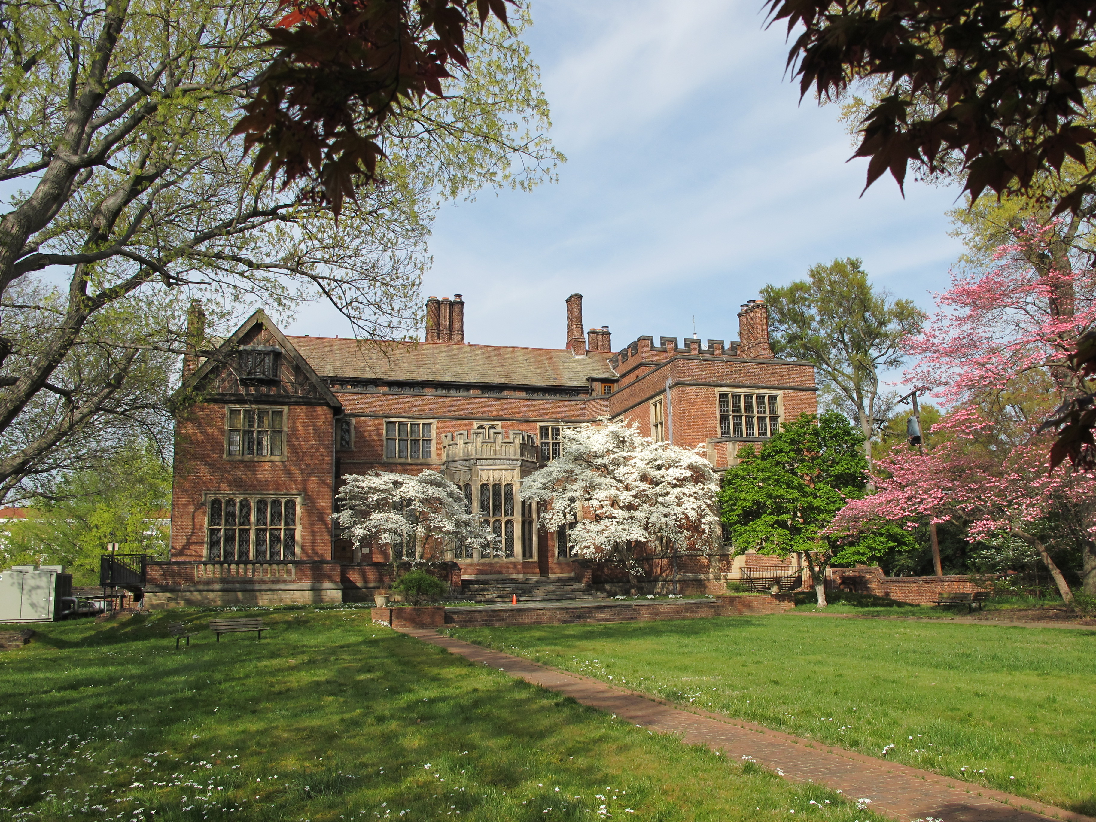 Exterior of The Branch House